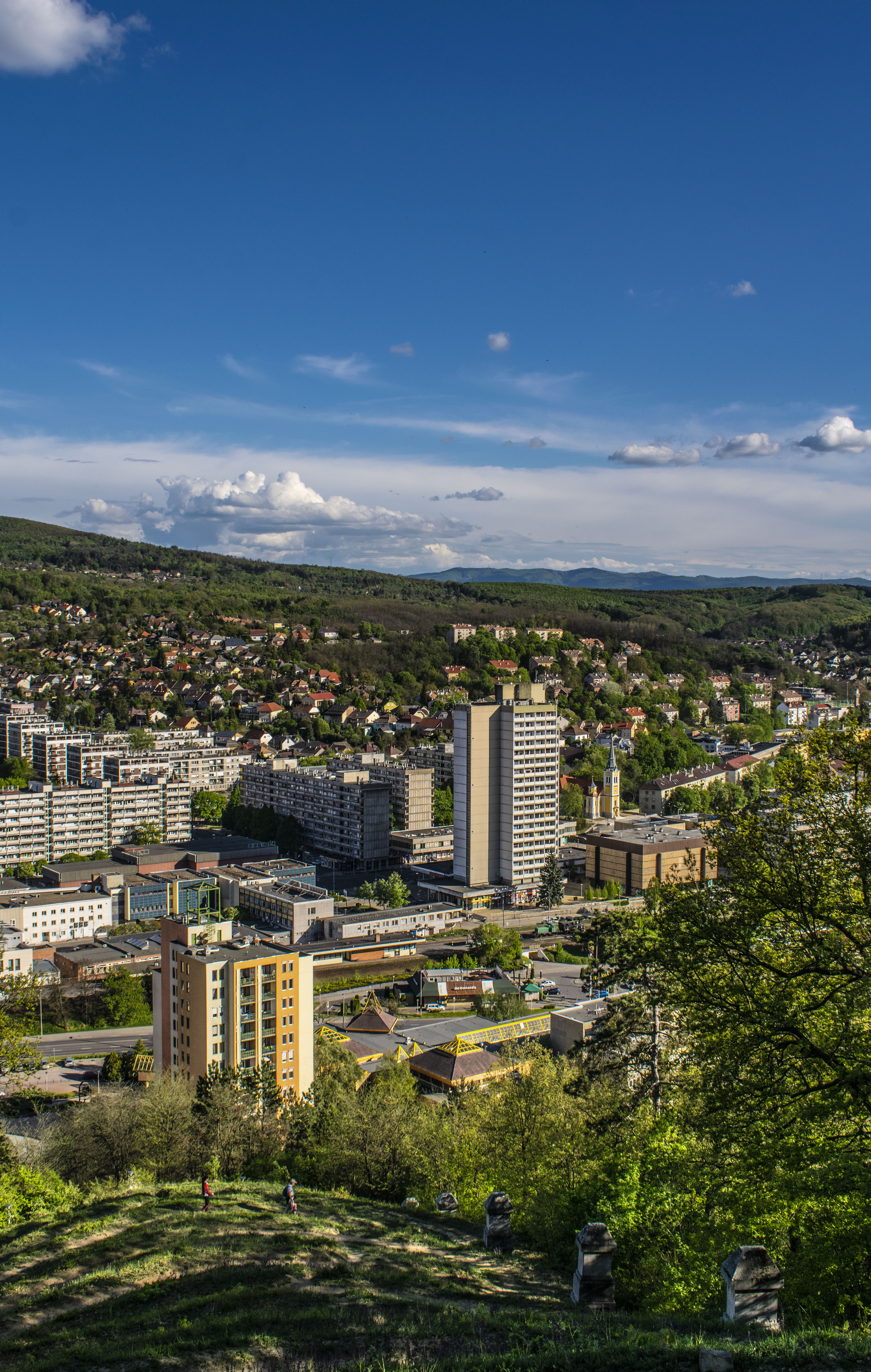 View from Kálvária hill, Salgótarján